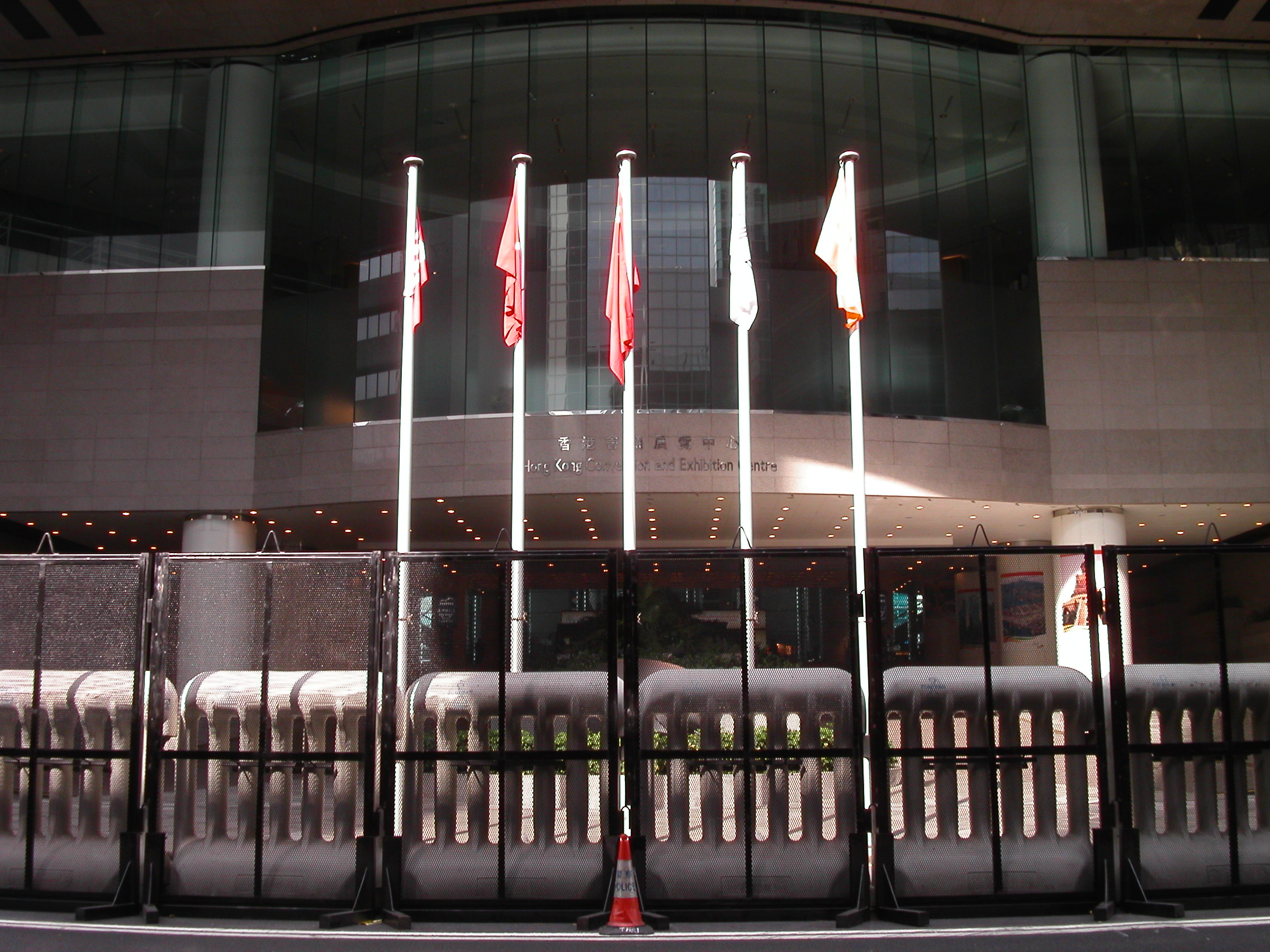 This is a photo of the Hong Kong Convention Center, where talks for the Doha Round of WTO negotiations took place in 2005.